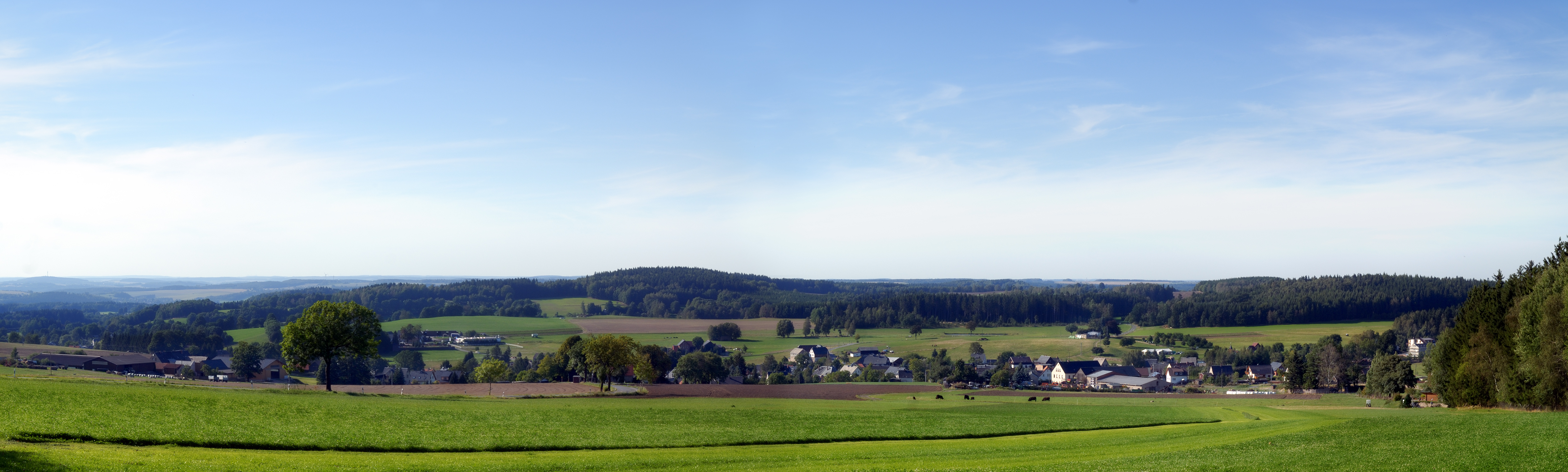 This image shows the district Wildenau in Steinberg, Saxony, Germany. It is a two segment panoramic image.